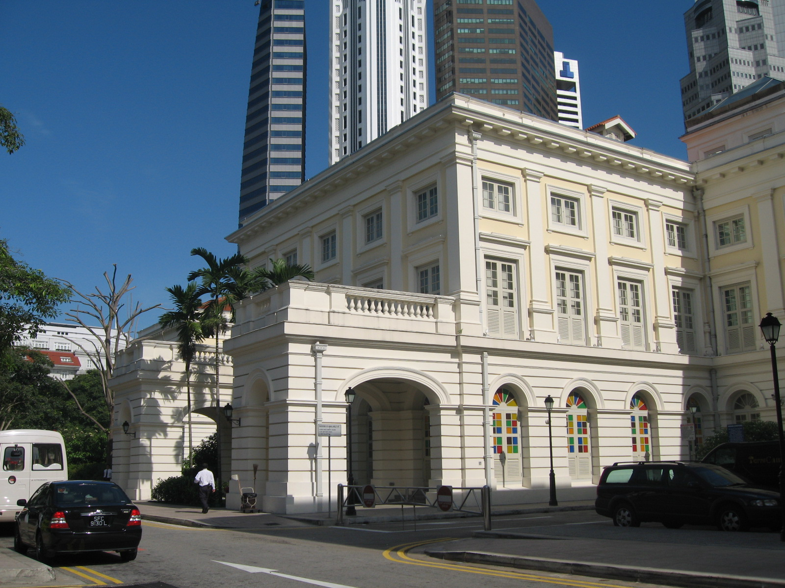 Asian Civilisations Museum, Empress Place.